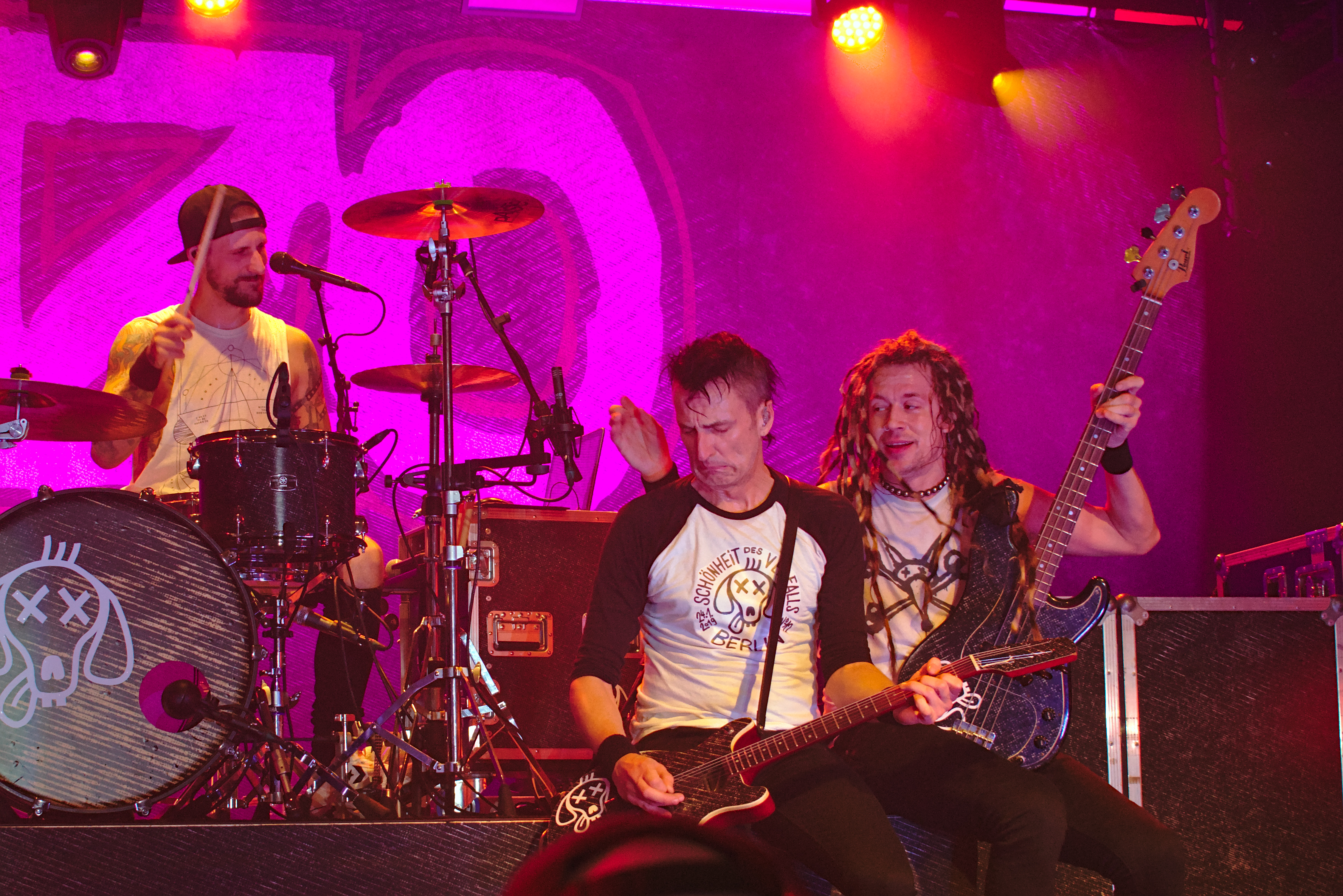 The German Punk rock band Wizo, live in concert at the Astra Kulturhaus, Berlin, Germany. January 24, 2019.